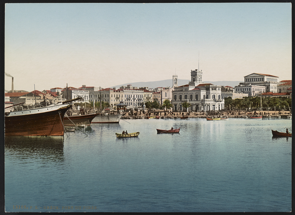 Title: Grèce. Port du Pirée Abstract/medium: 1 print : color photochrom ; sheet 17 x 23 cm.